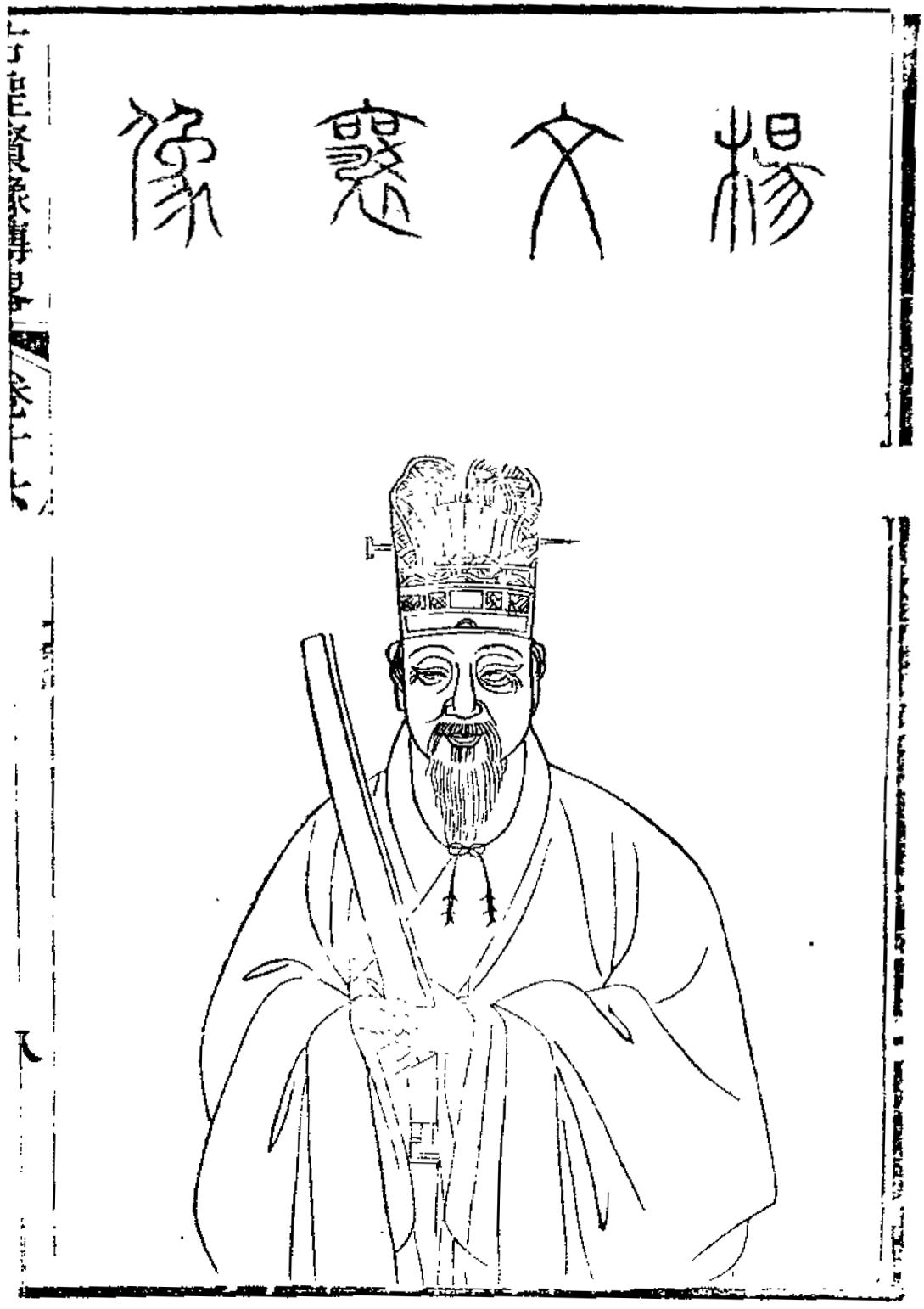 Yang Yiqing, politician of the Ming Dynasty.